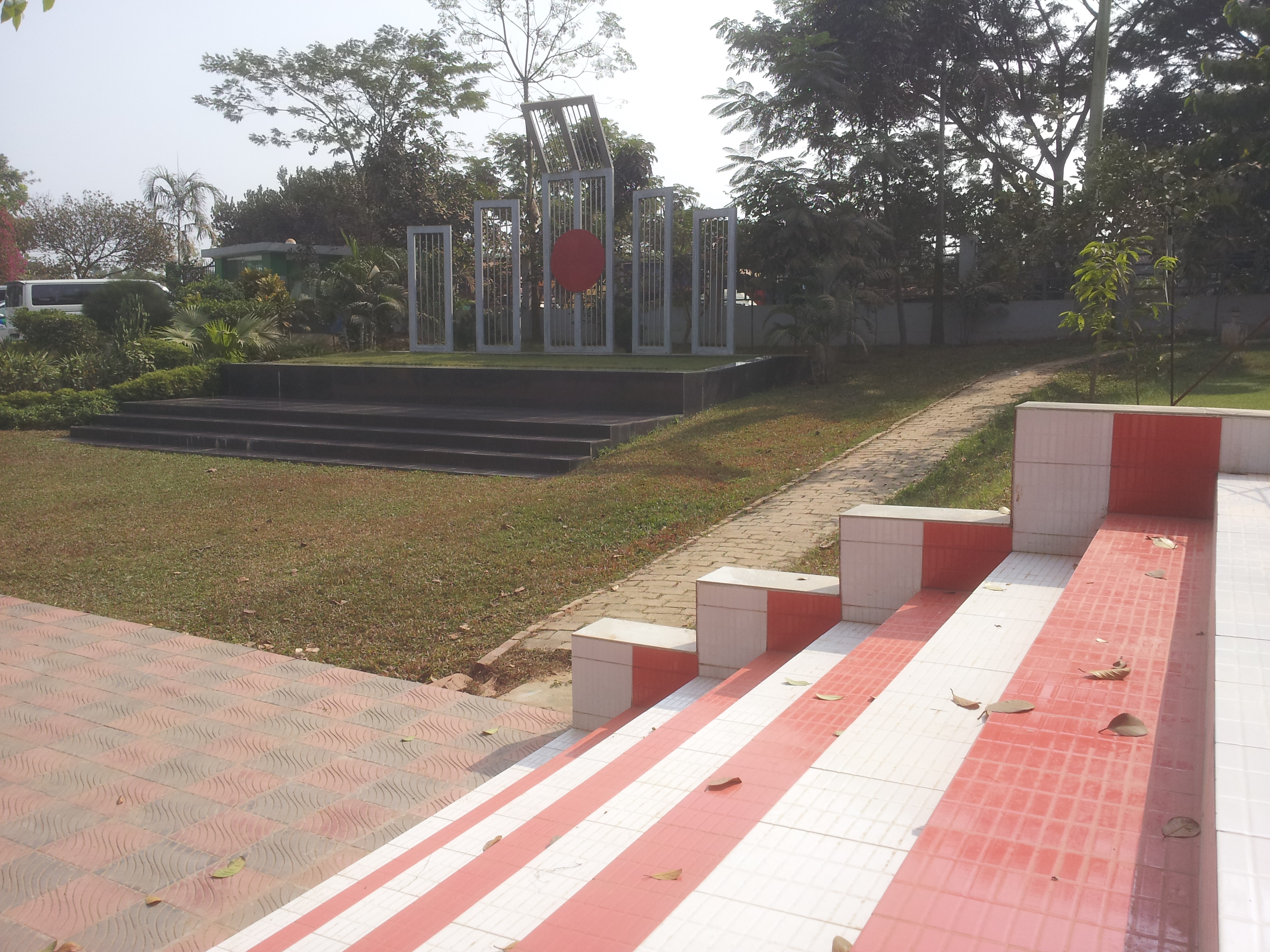 Martyr monument in Daffodil International University Campus, Savar.